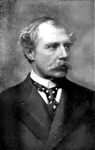 Sir Charles Brooke,(1829 - 1917)